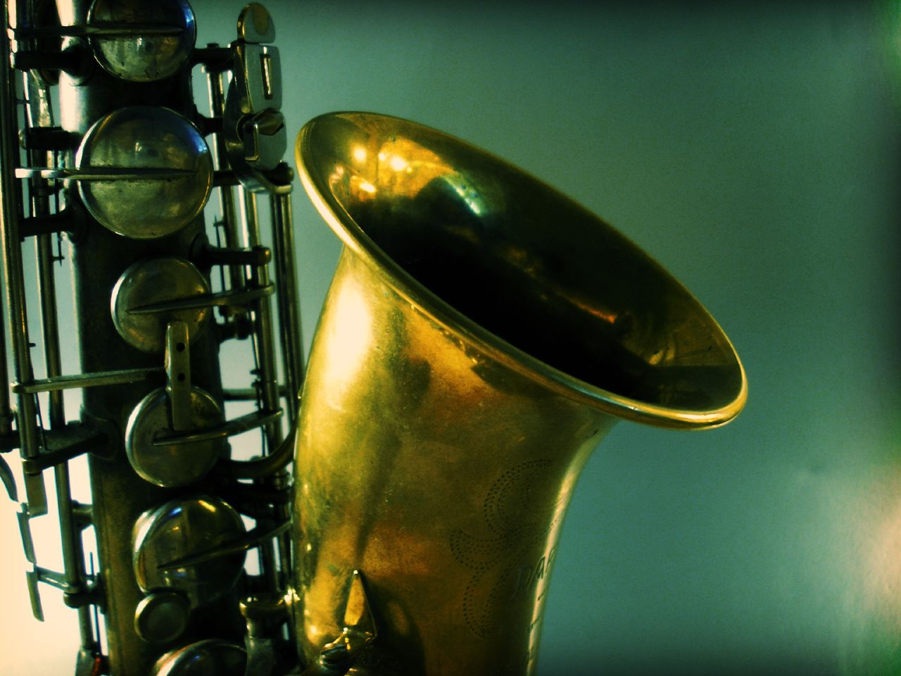 Artistic shot of a tenor saxophone on a blue-green background